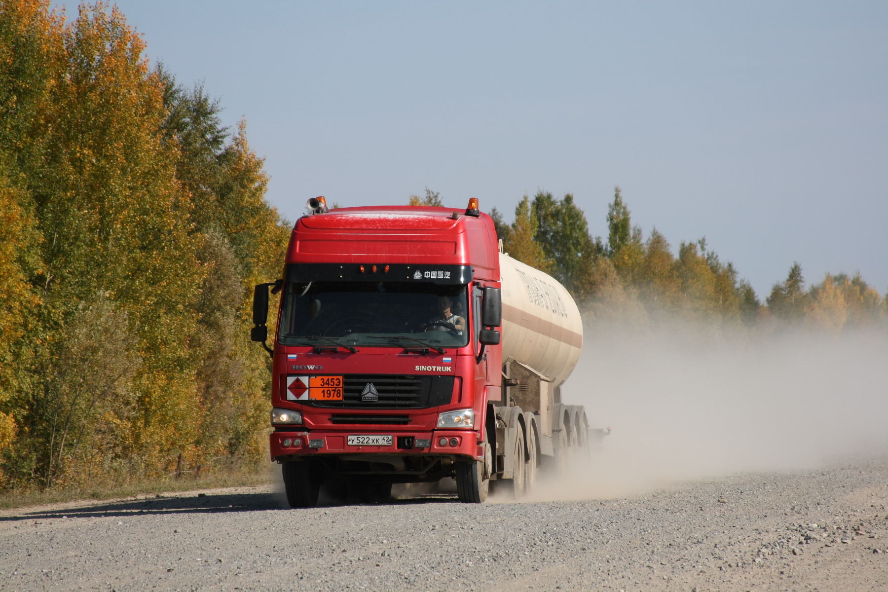 HOWO truck in Russia.